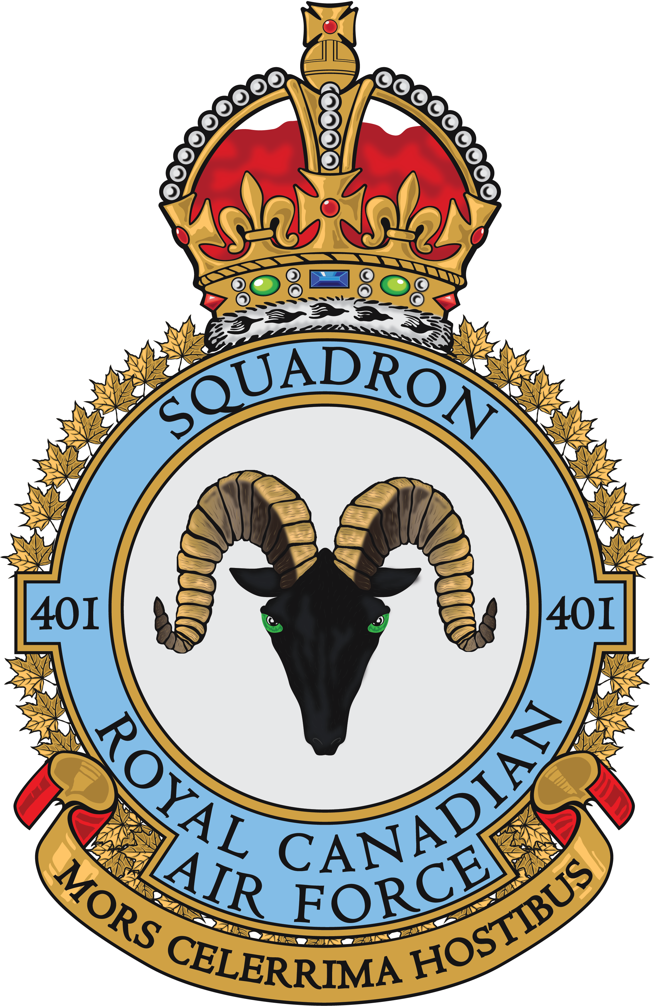 Digital vector render of the WWII variant of the 401 Sqn emblem.